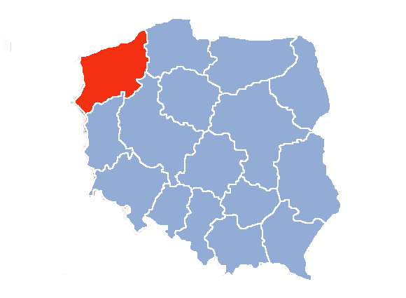 Copyright notice: Image made by Halibutt and uploaded to Wikipedia by the author. Images can be made available for use under other copyleft licenses on a case by case basis via direct contact with the author. Under moral rights the user requires that this work be properly attributed to its creator. For photographs, this is traditionally done in the image caption. Where a copyright notice is present, using the copyright notice in the caption will be sufficient. Note that the GFDL requires that any copyright notices be included with the work even when making unmodified use of it.Since the legal status of the above comment has been questioned, I hereby grant anyone the right to treat it as either a standard copyright notice, invariant section, legal statement, legal advice, friendly suggestion or a mere comment, depending on his or hers own choice.